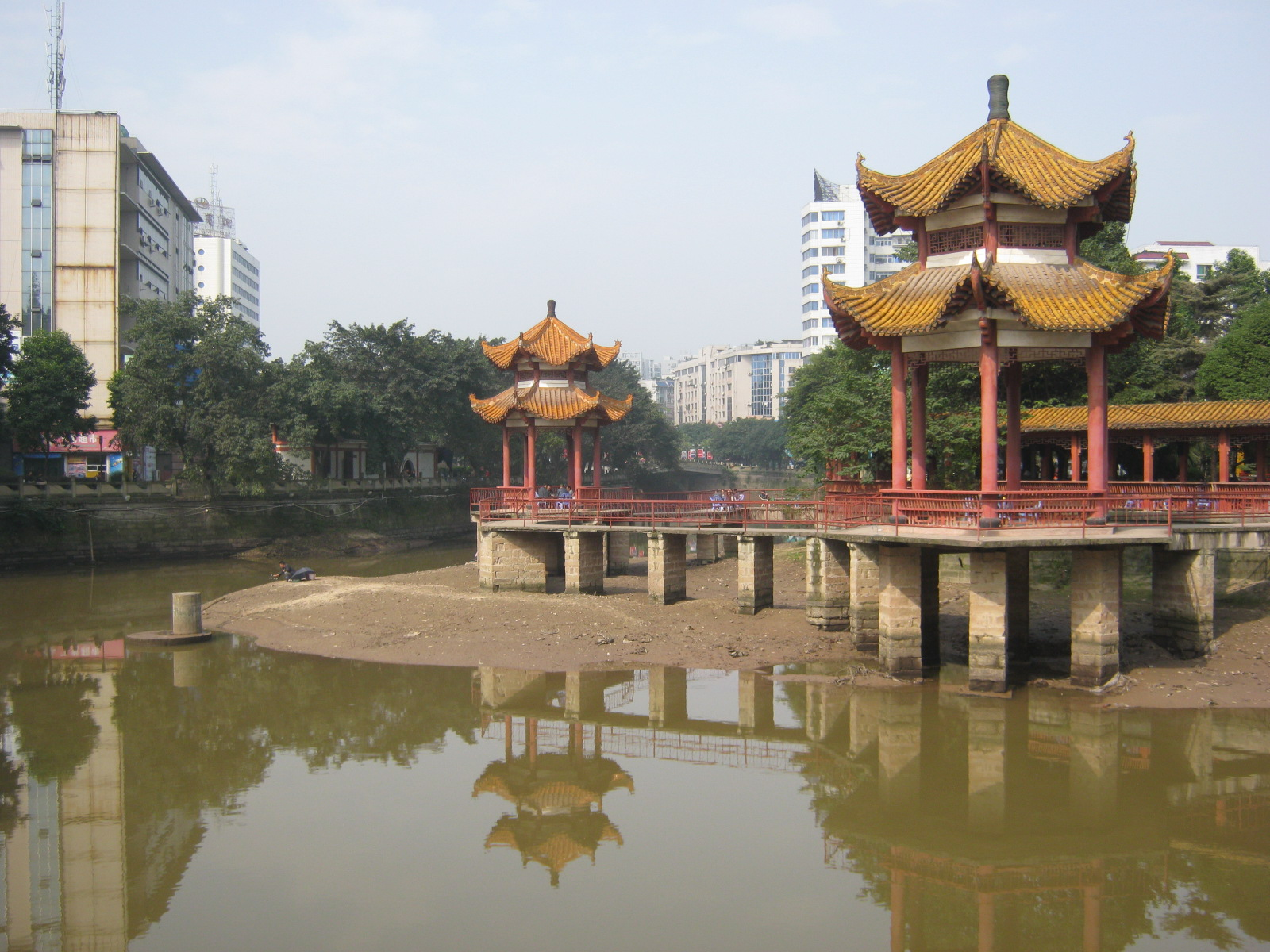 LongChang in 2012